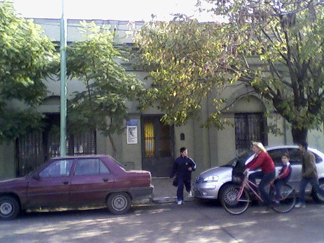 Sullivan House, the residential house of the prominent Sullivan family, an example of the late XIX architecture in Merlo.